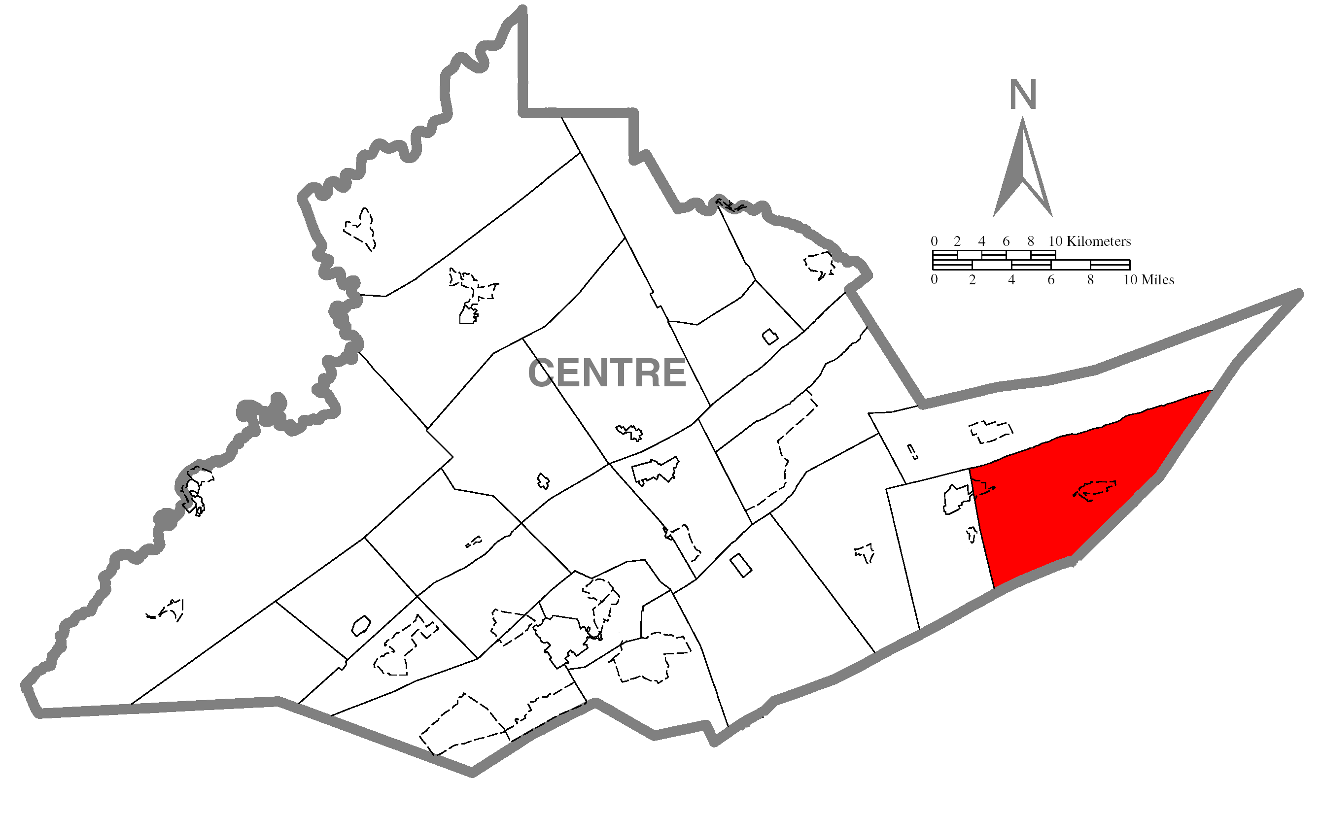 A map of Centre County showing Haines Township, Pennsylvania (alternate) highlighted on the map.